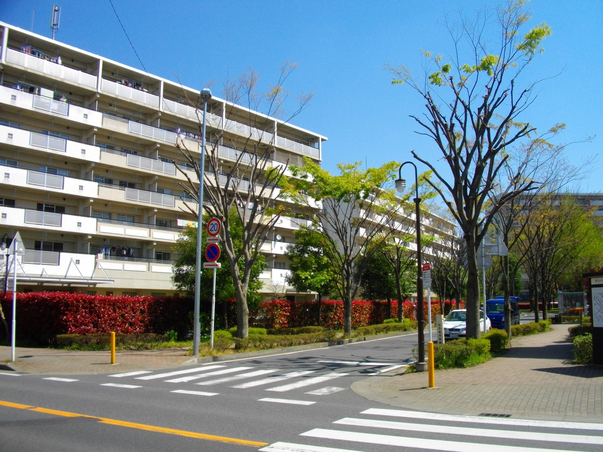 Greentown Hikarigaoka